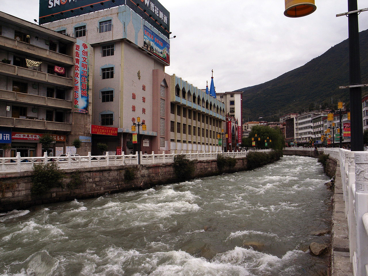 Kangding, Garzê Tibetan Autonomous Prefecture, Sichuan, China